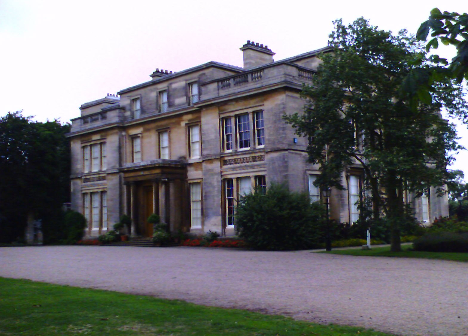 Normanby Hall. Photo by E Asterion u talking to me?